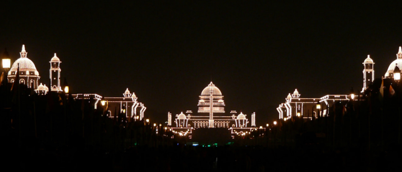 Rashtrapati Bhavan and adjacent buildings, illuminated for the Republic Day.